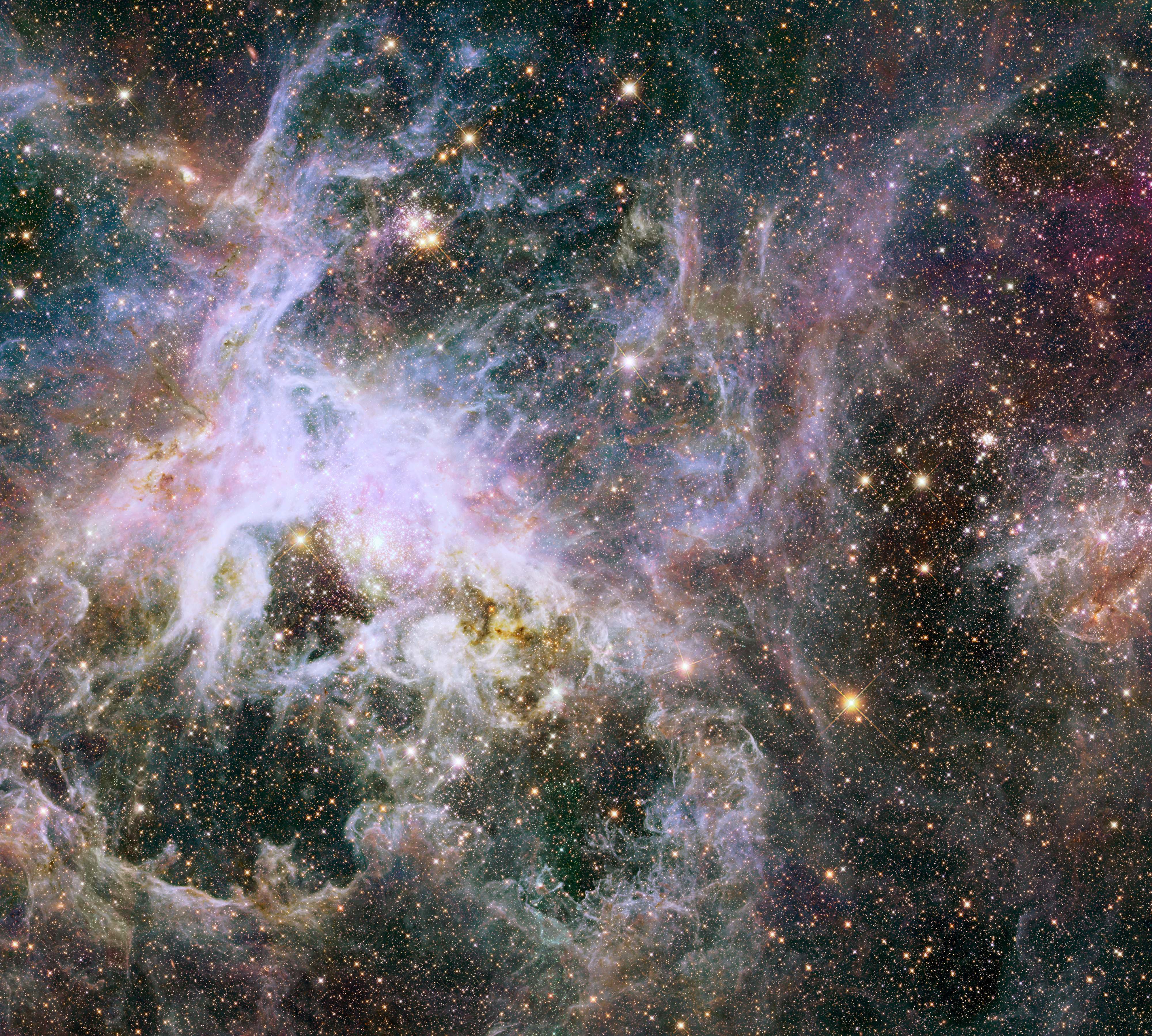 This new Hubble image shows a cosmic creepy-crawly known as the Tarantula Nebula in infrared light. This region is full of star clusters, glowing gas, and thick dark dust. Created using observations taken as part of the Hubble Tarantula Treasury Project (HTTP), this image was snapped using Hubble's Wide Field Camera 3 (WFC3) and Advanced Camera for Surveys (ACS). The Hubble Tarantula Treasury Project (HTTP) is scanning and imaging many of the many millions of stars within the Tarantula, mapping out the locations and properties of the nebula's stellar inhabitants. These observations will help astronomers to piece together an understanding of the nebula's skeleton, viewing its starry structure.